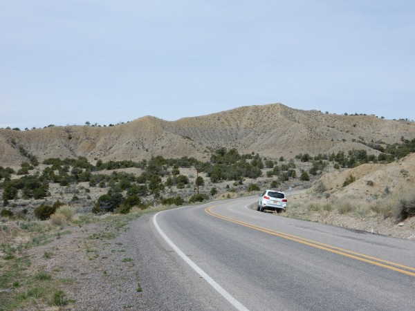 The hills in this photograph, taken along State Road 126 southeast of Cuba, New Mexico, are underlain by Lewis Shale.